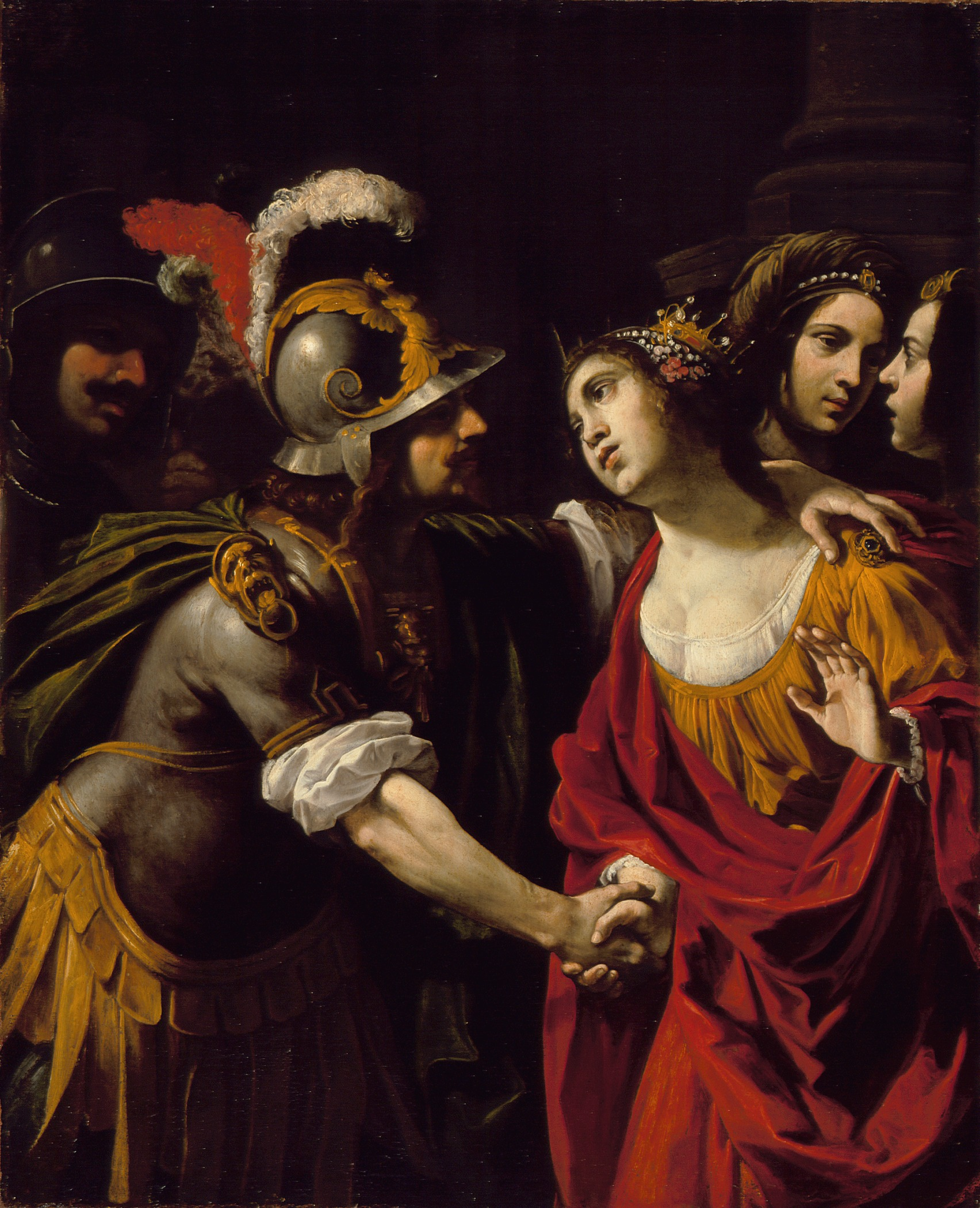 Italy, circa 1630 Paintings Oil on canvas Anonymous gift in honor of The Ahmanson Foundation (M.81.199) European Painting Currently on public view: Ahmanson Building, floor 3